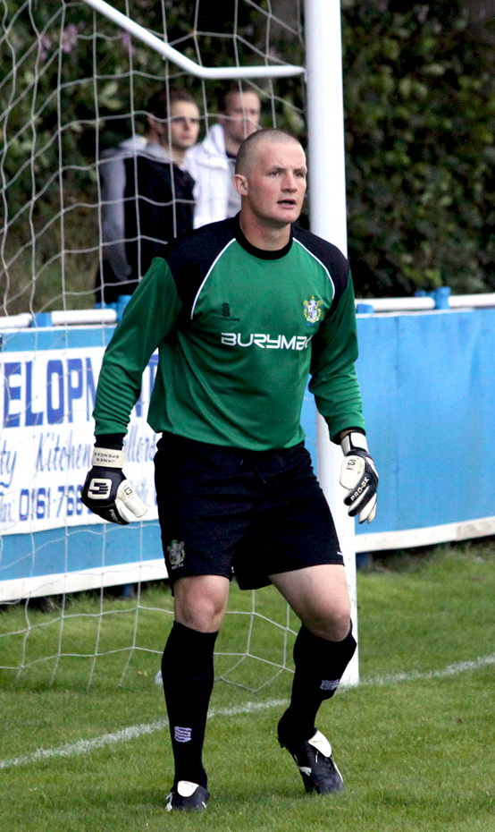 Bury FC trialist James Spencer during the Ramsbottom United vs. Bury friendly game at The Riverside, home of Ramsbottom United FC. Tuesday 4th August 2009